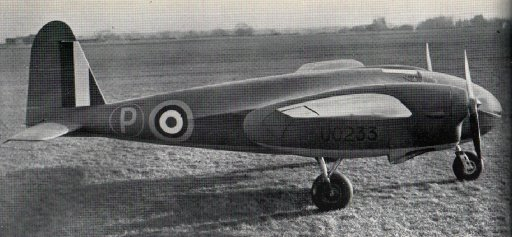 Miles M.30 X Minor technology testbed, 1942.